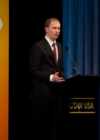 A picture of Ryan Junee at G'Day USA